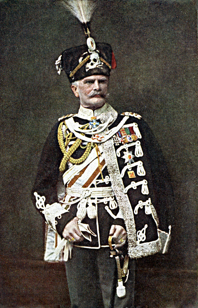 August von Mackensen. German field marshall.